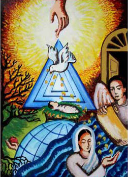 An ancient Christian Icon depicting the Annunciation by St. Gabriel to Mary, the mther of Jesus and birth of Jesus via Holy Spirit